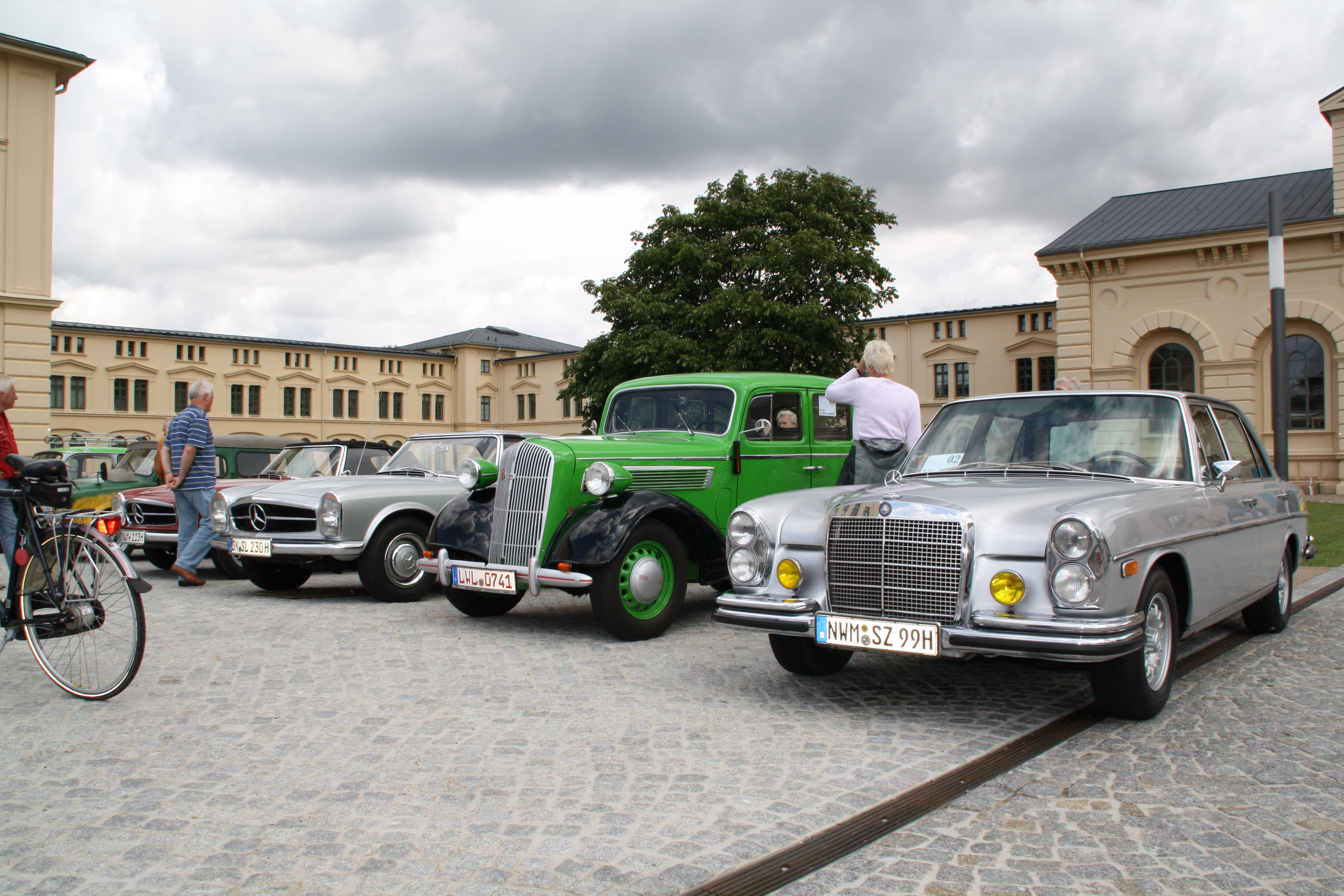 Rally for oldtimers